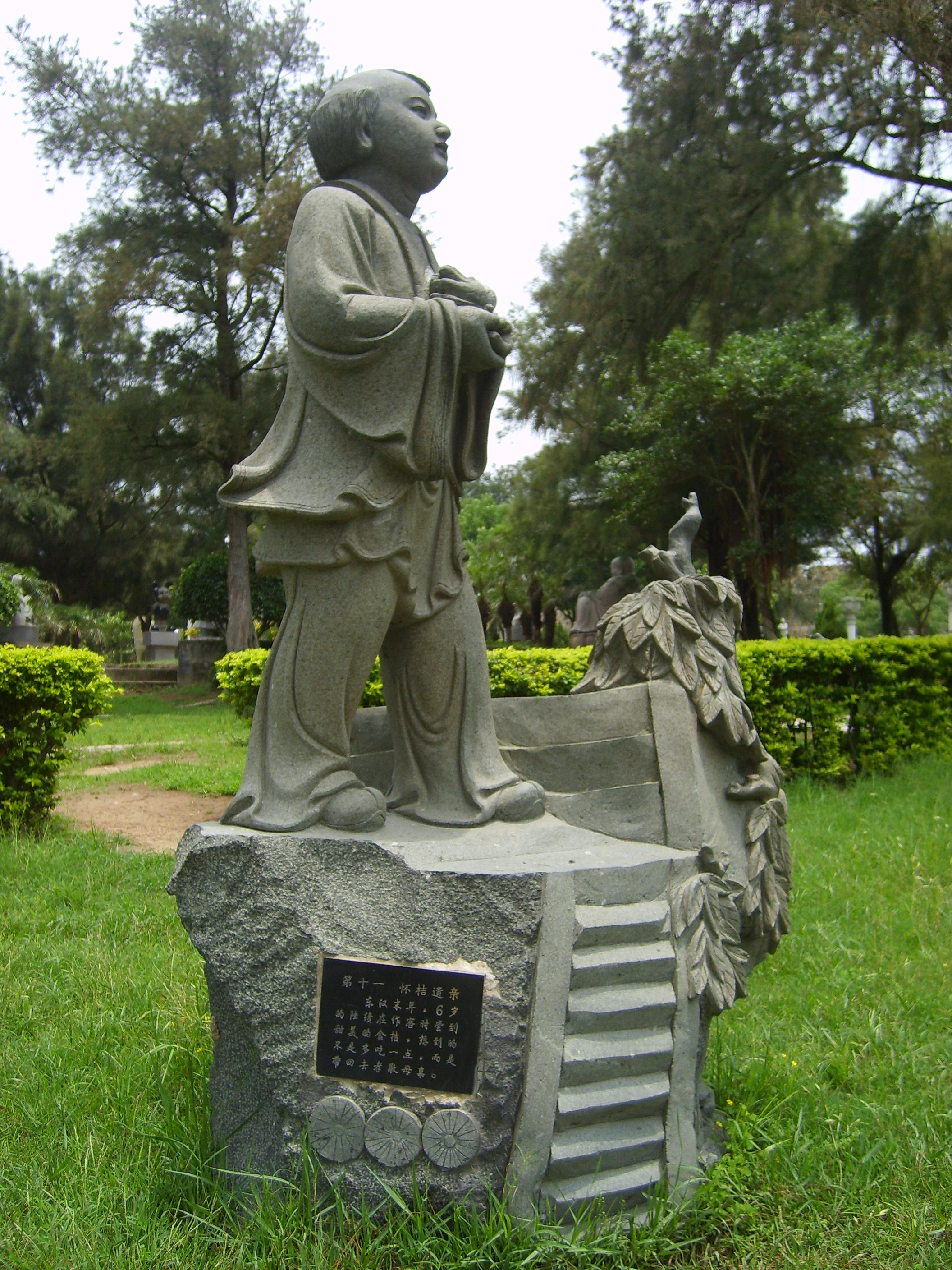 The Twenty-four Filial Exemplars - No. 11